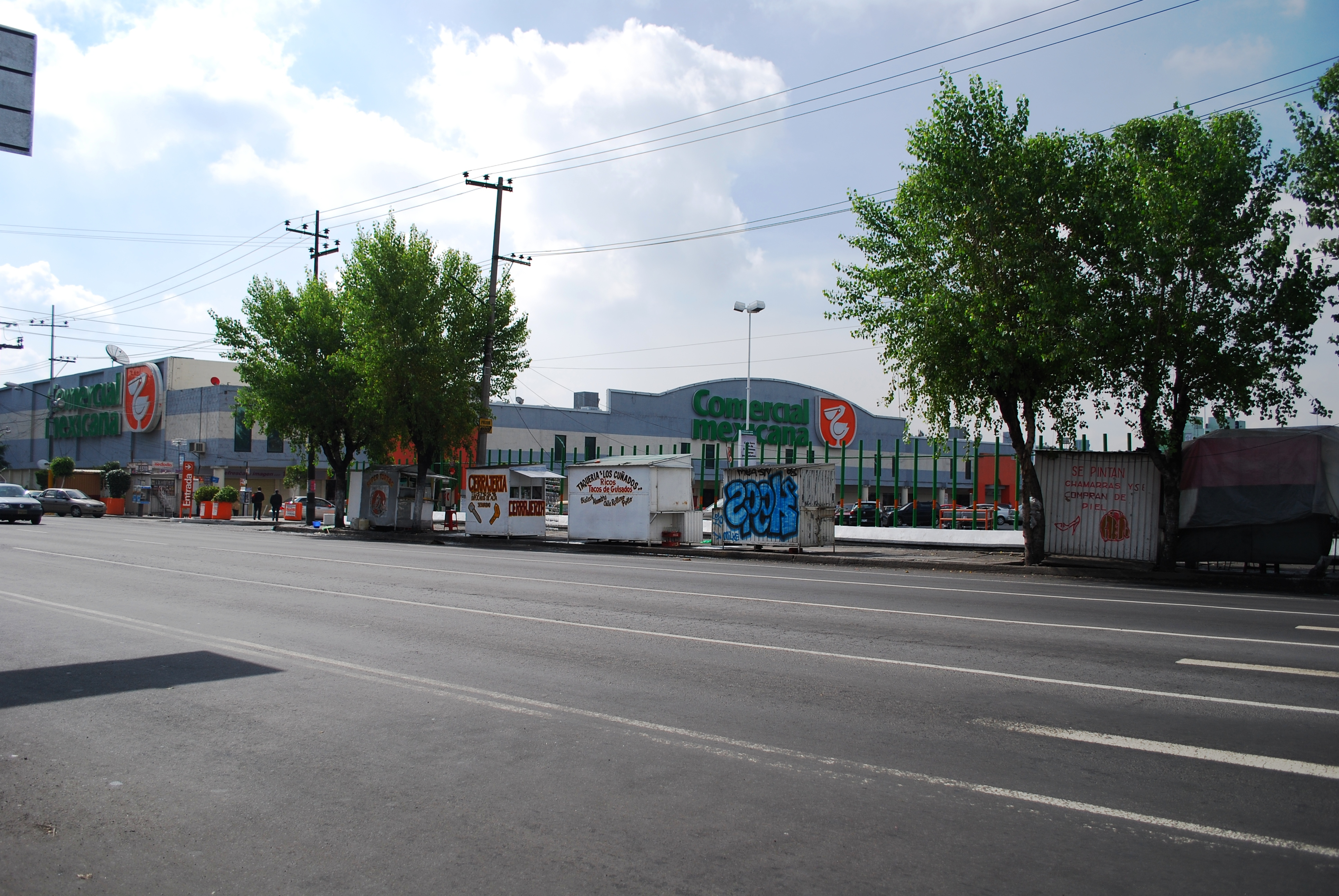 A Commerical Mexicana supermarket at the site of the former Asturias soccer team statium, the first major soccer stadium in Mexico City